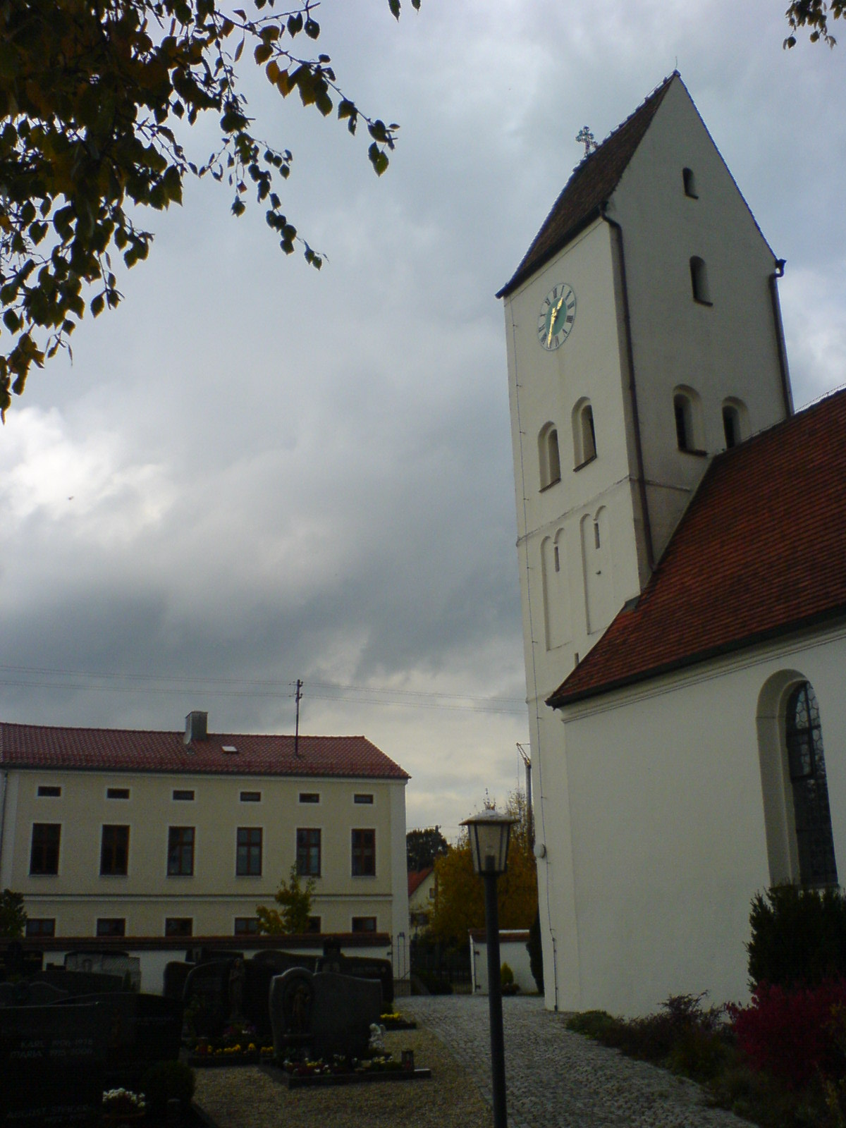 Church and the former school in Mitterwöhr